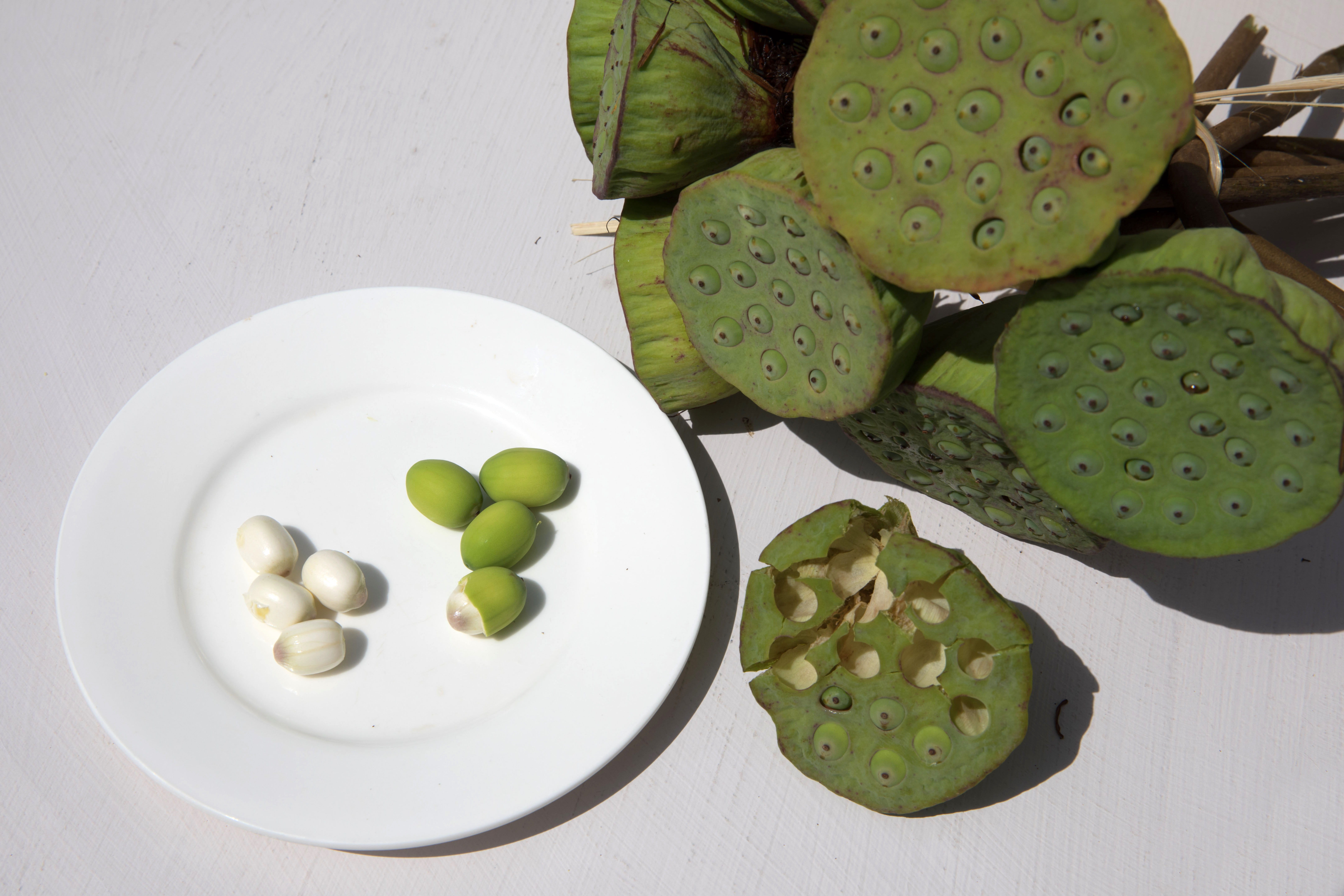 Edible white seeds from a Lotus fruit (Nelumbo nucifera) on a table